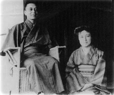 Sadayakko Kawakami (1871–1946) and Momosuke Fukuzawa (1868–1938)